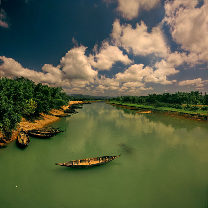 3-shot vertical pano to get square format.